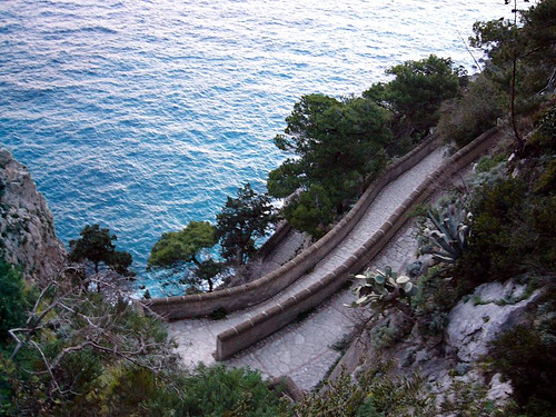 via krupp